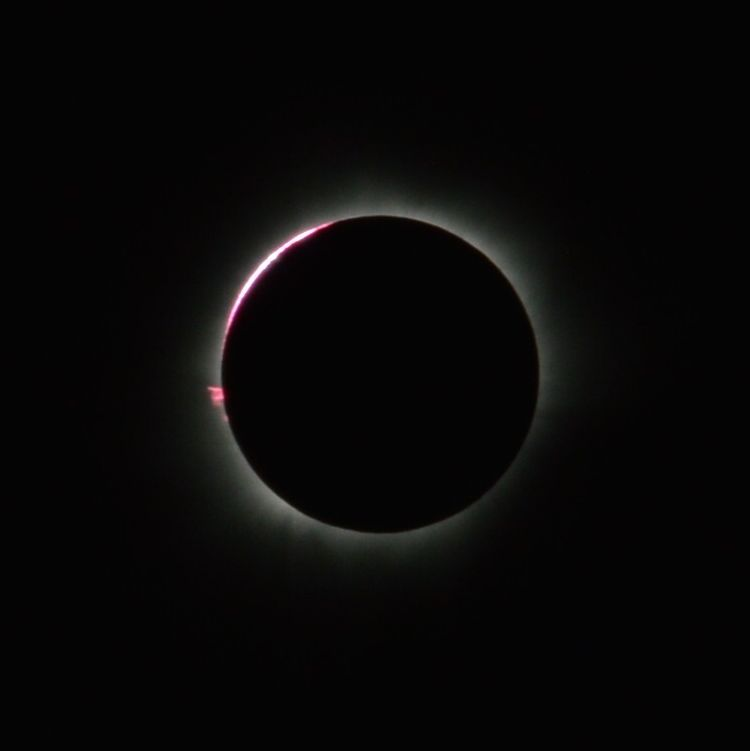 Solar eclipse of March 9, total eclipse seen from Manggar Beach, Balikpapan, East Kalimantan.